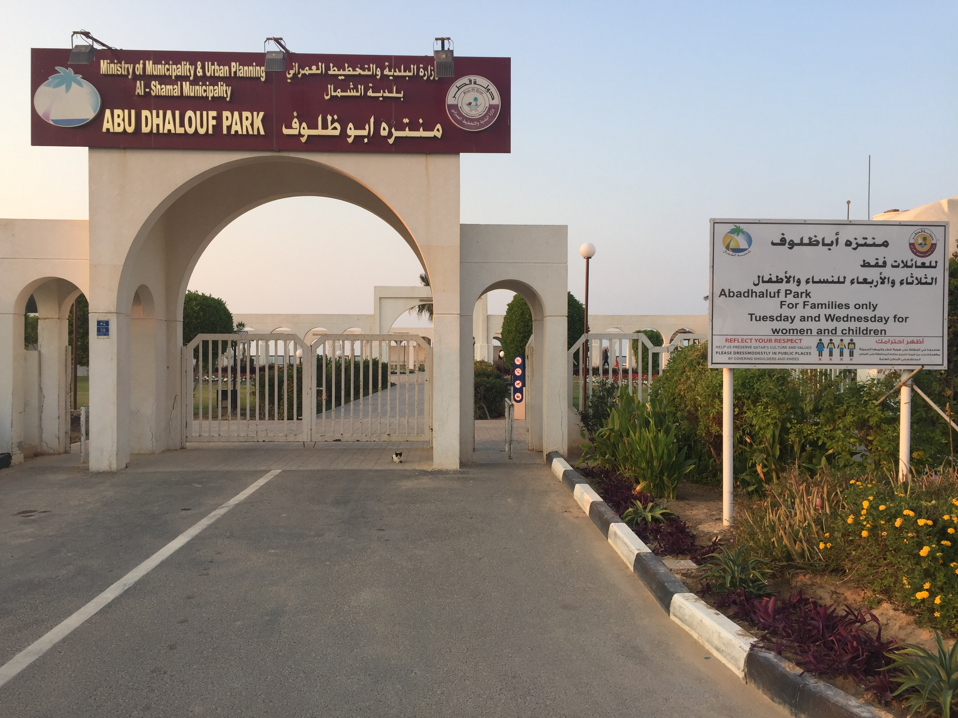 Entrance to Abu Dhalouf Park in Al Shamal Municipality, Qatar.